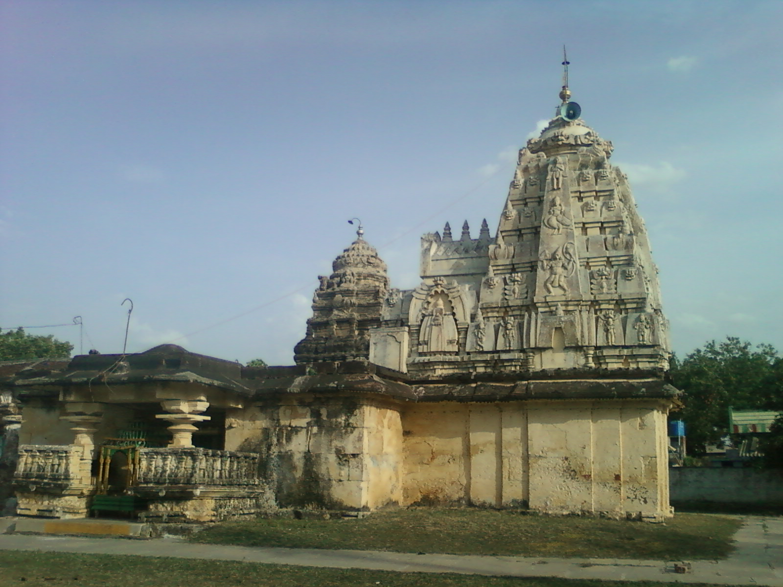 Chaturmukha Brahmalingam Temple complex at Chebrolu in Guntur district, Andhra Pradesh